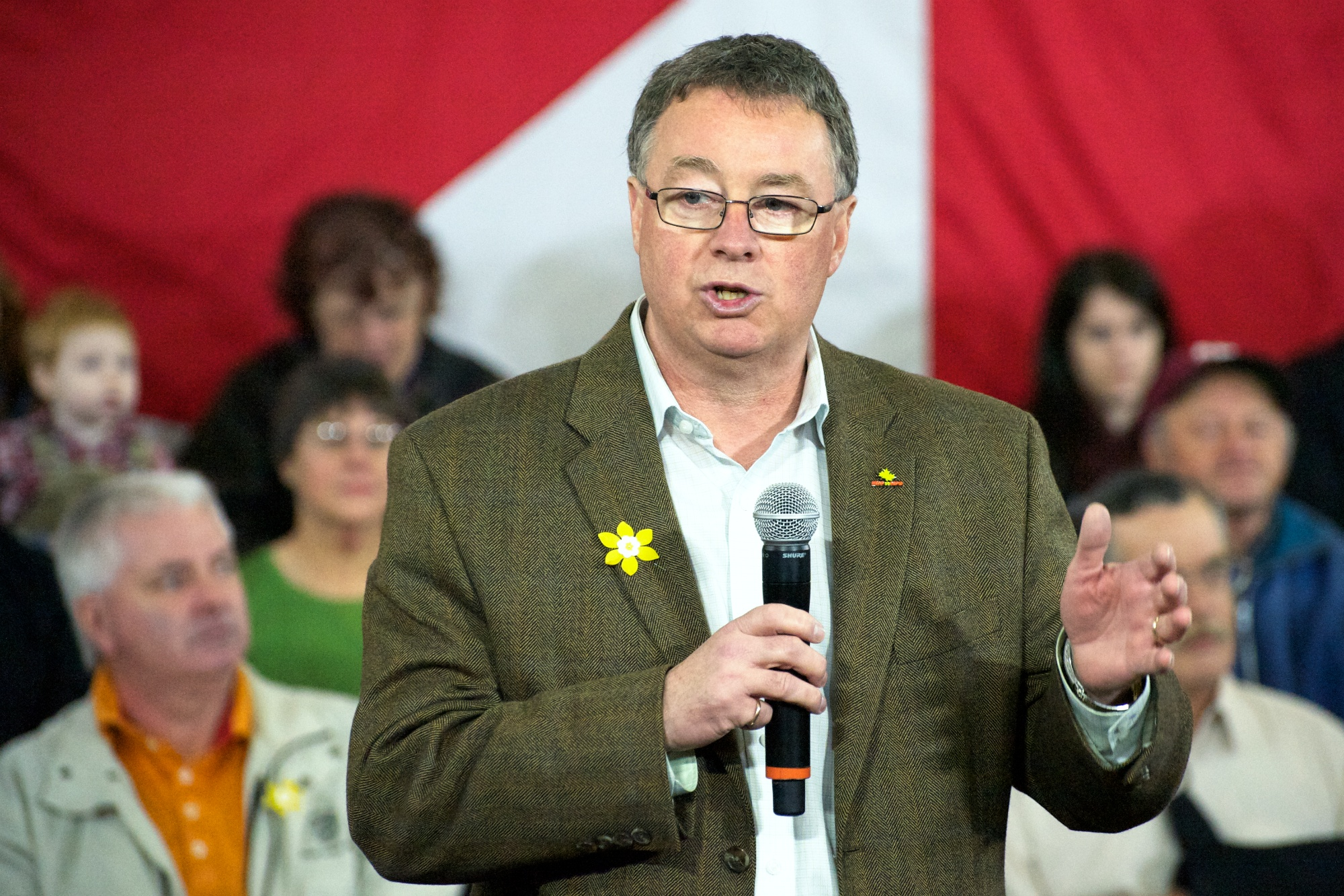 Malcolm Allen, Member of Parliament and New Democratic Party candidate for the riding of Welland, at a camapign stop in Welland, Ontario, Canada.